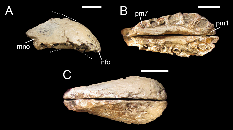 A‒C, Cristatusaurus lapparenti (MNHN GDF366; A left reversed).